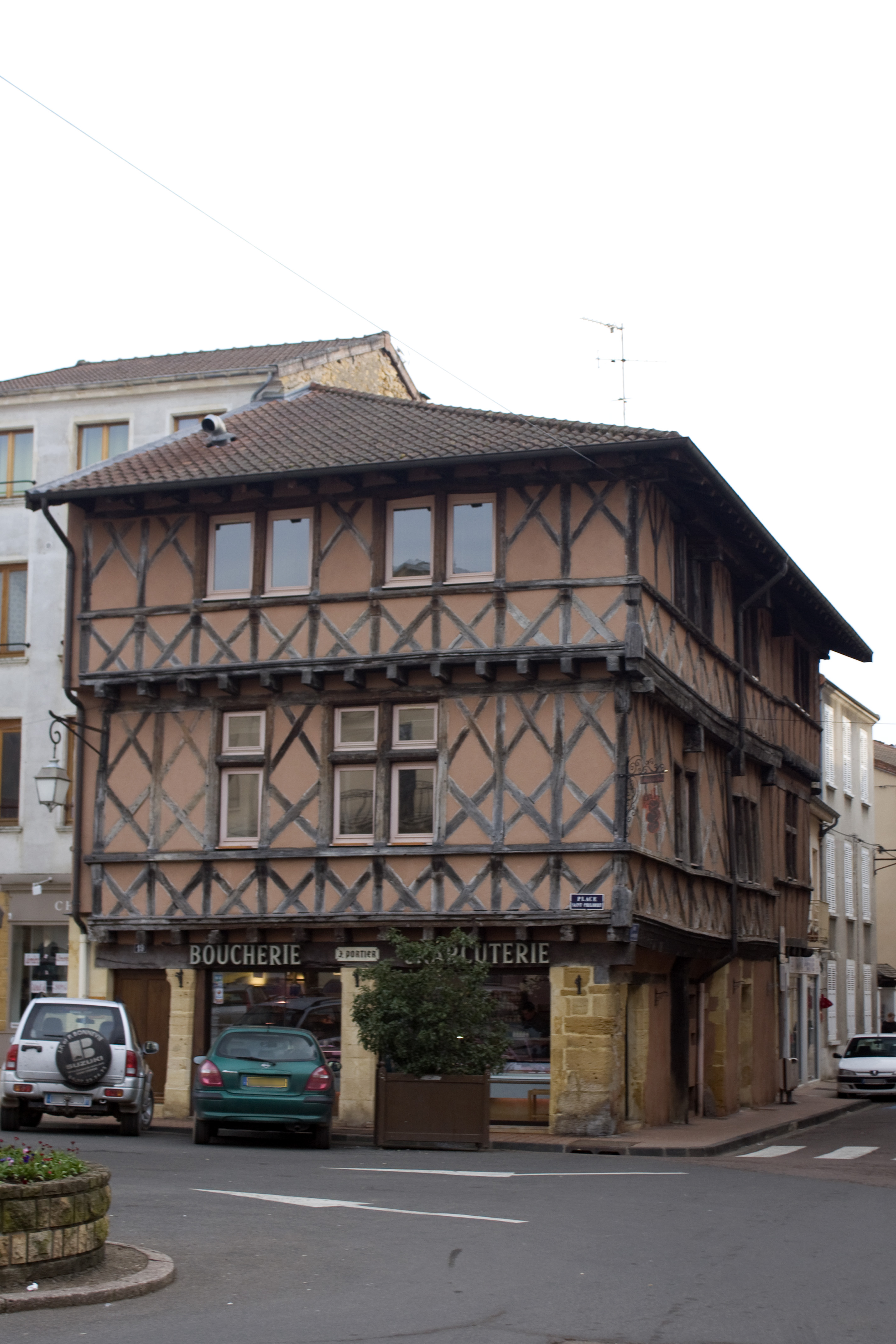 Half-timbered house, Saint Philibert's place, street of Mills.